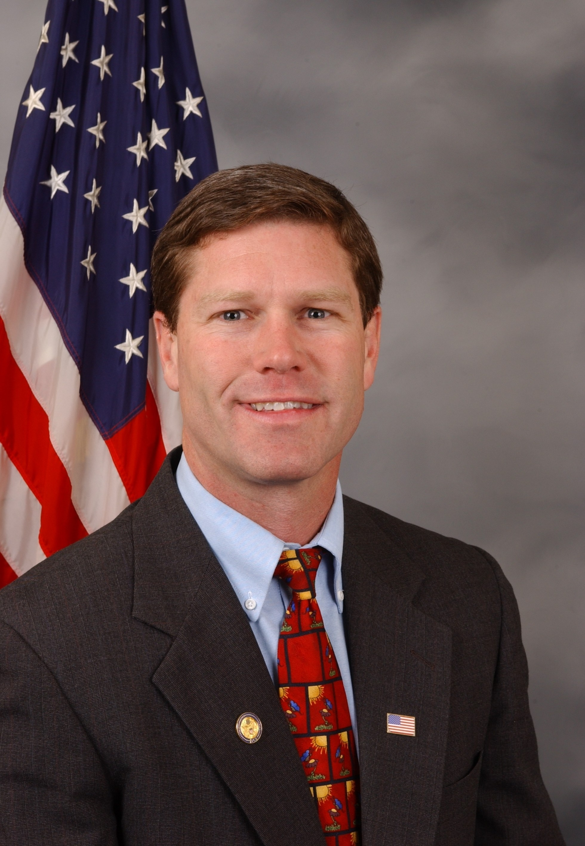 Ron Kind, member of the United States House of Representatives.